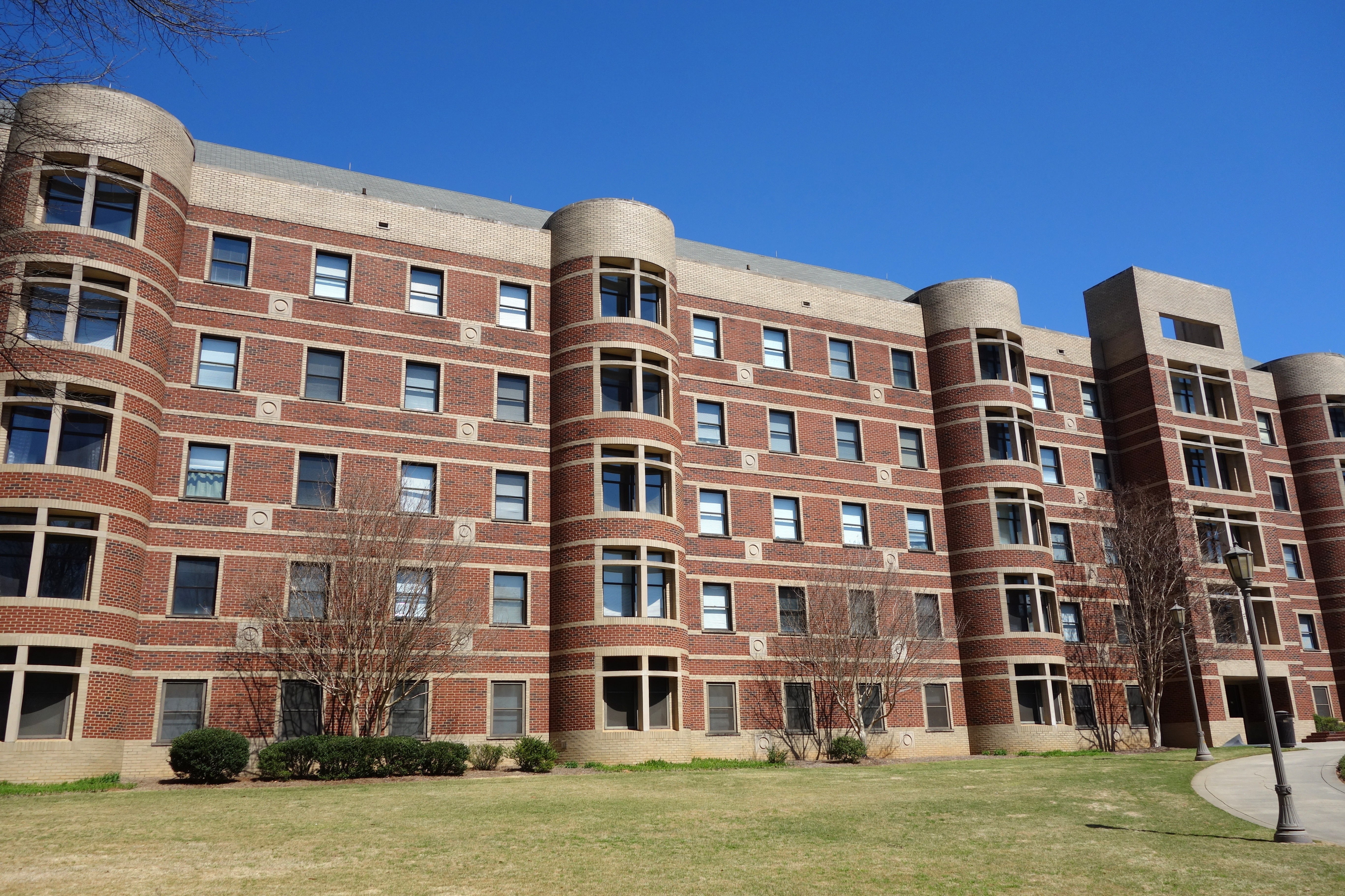 Northern building of the Center Street Apartments on the main campus of Georgia Institute of Technology in Atlanta, Georgia, USA.